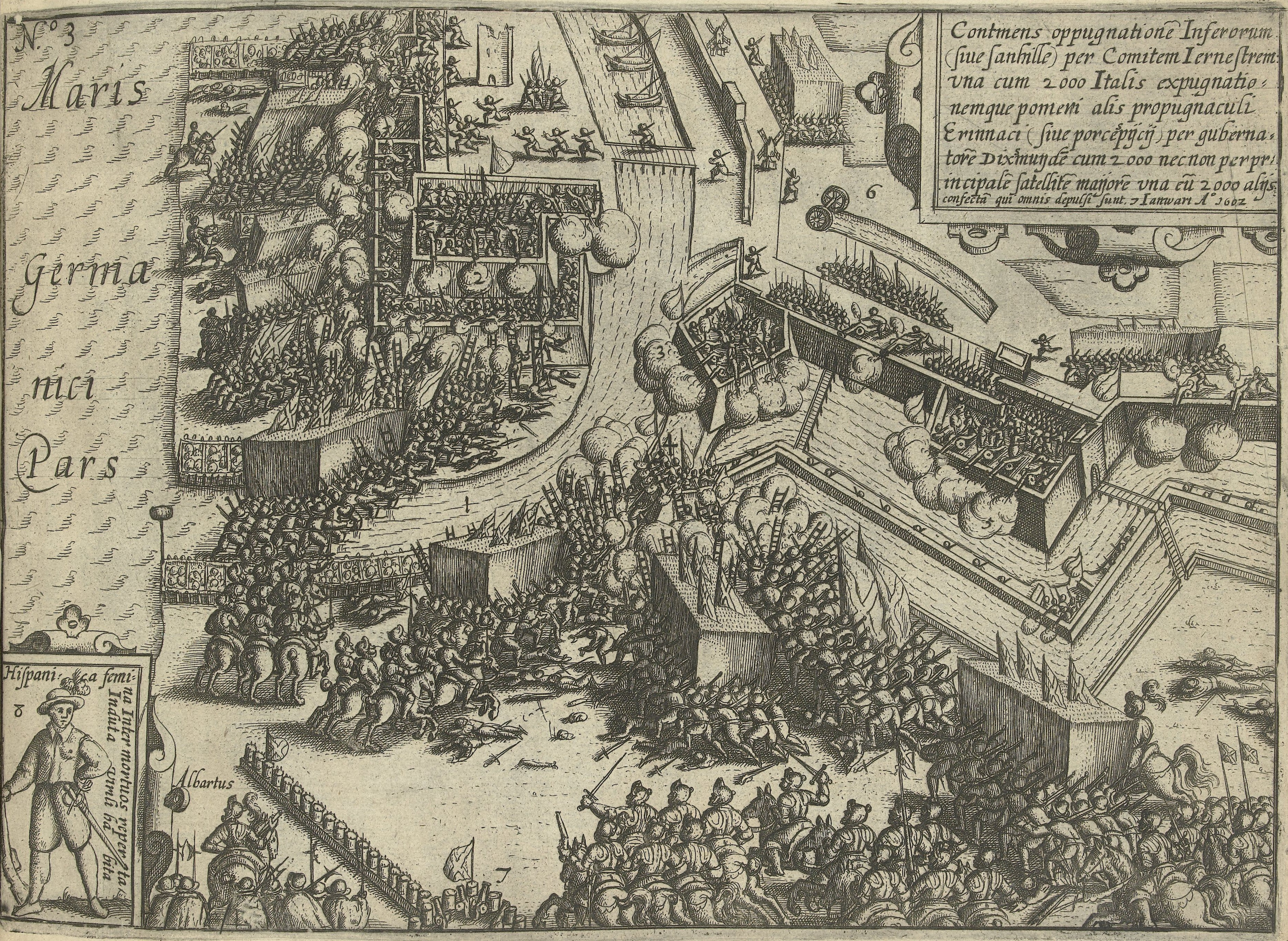 Siege of Ostend: massive attack on the cities defenses by Archduke Albrecht on 7 January 1602.